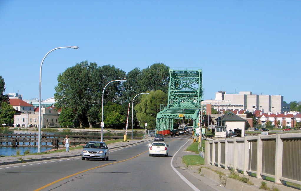 La Salle Causeway (looking west) and the bascule lift bridge, Kingston, Ontario, Canada.